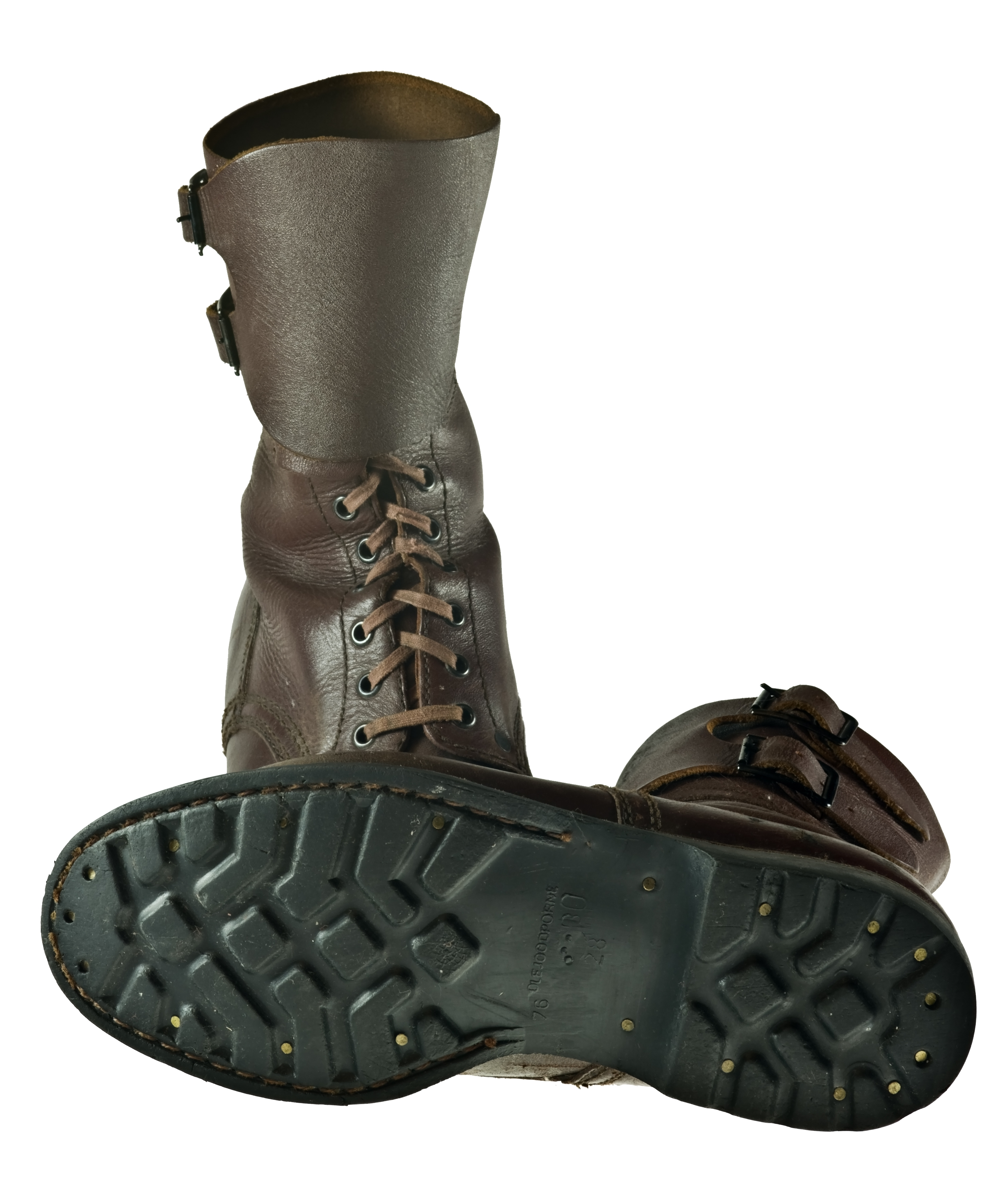 Combat boots used in Polish Army up to the 90'ties of the 20th century.